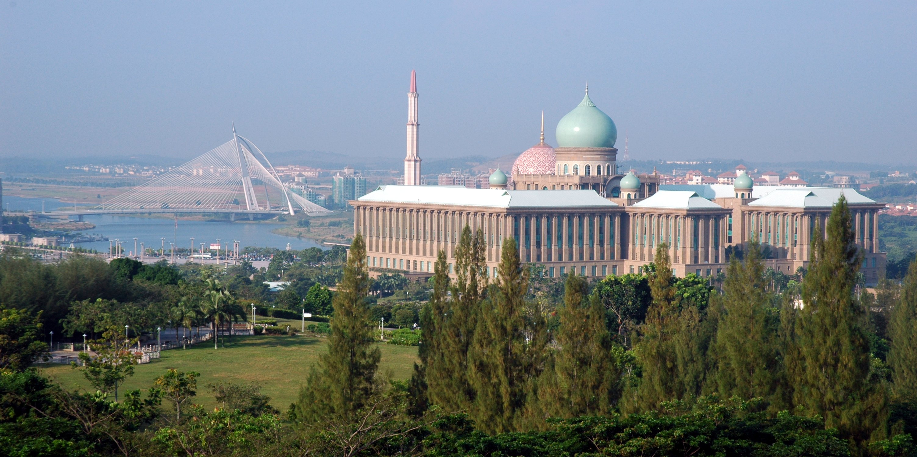 Tamn Perdana Putra, Putrajaya.